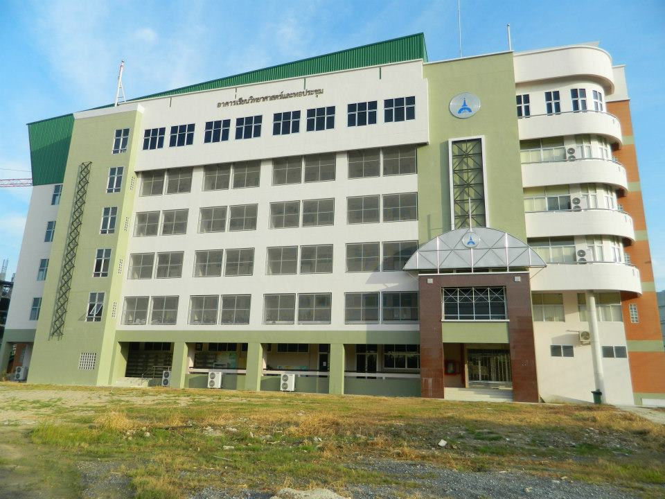 Science laboratory and convention hall, The Demonstration School of Nakhon Pathom Rajabhat University